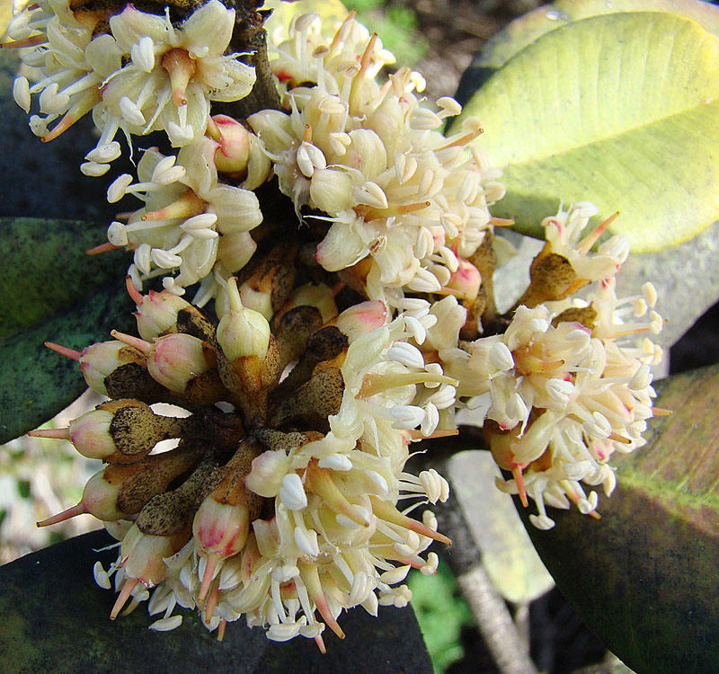 From the Chilean Coast, and known as the Chilean Lucuma for its fruit. In context at